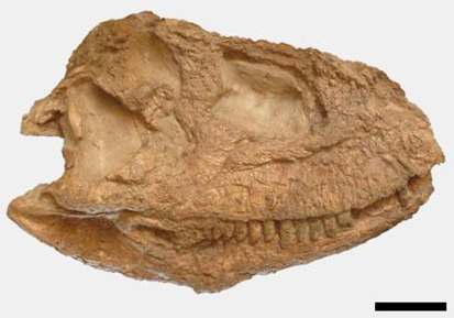 Skorpiovenator (MMCH-PV 48). (scales bar: 5 cm)